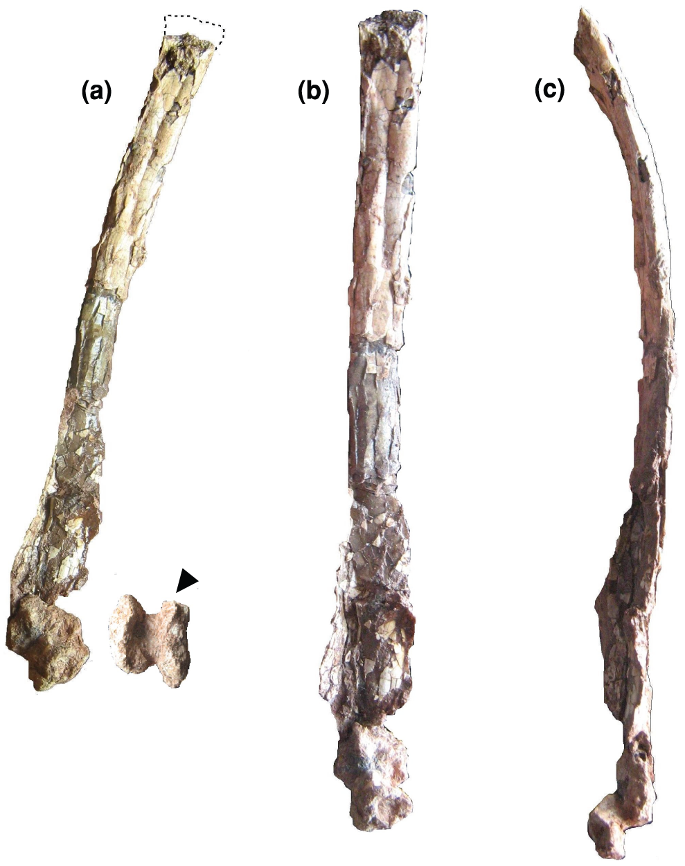 Eurazhdarcho langendorfensis, metacarpal four. EME VP 312/3. (a) Posterior and distal views. (b) Posterior view. (c) Lateral view. Total preserved length of this element is 236 mm.